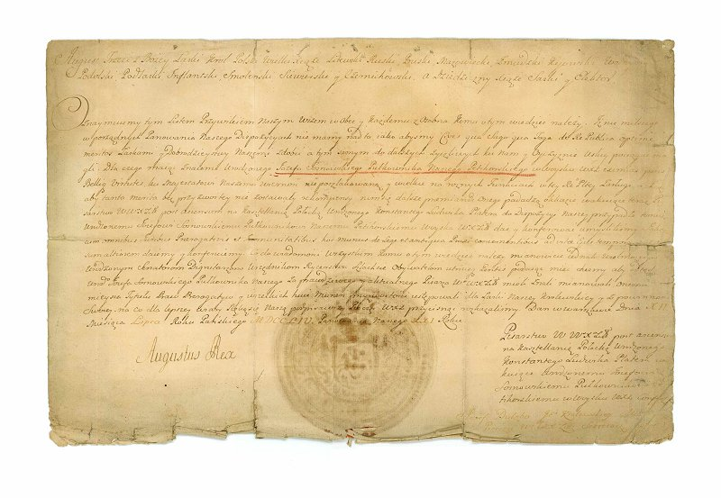 Jozef Sosnowski Great Scribe of Lithuania 1754